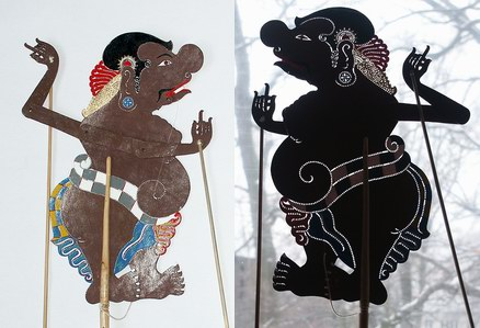 Umarmaya, wayang kulit figure from the epos Serat Menak Sasak